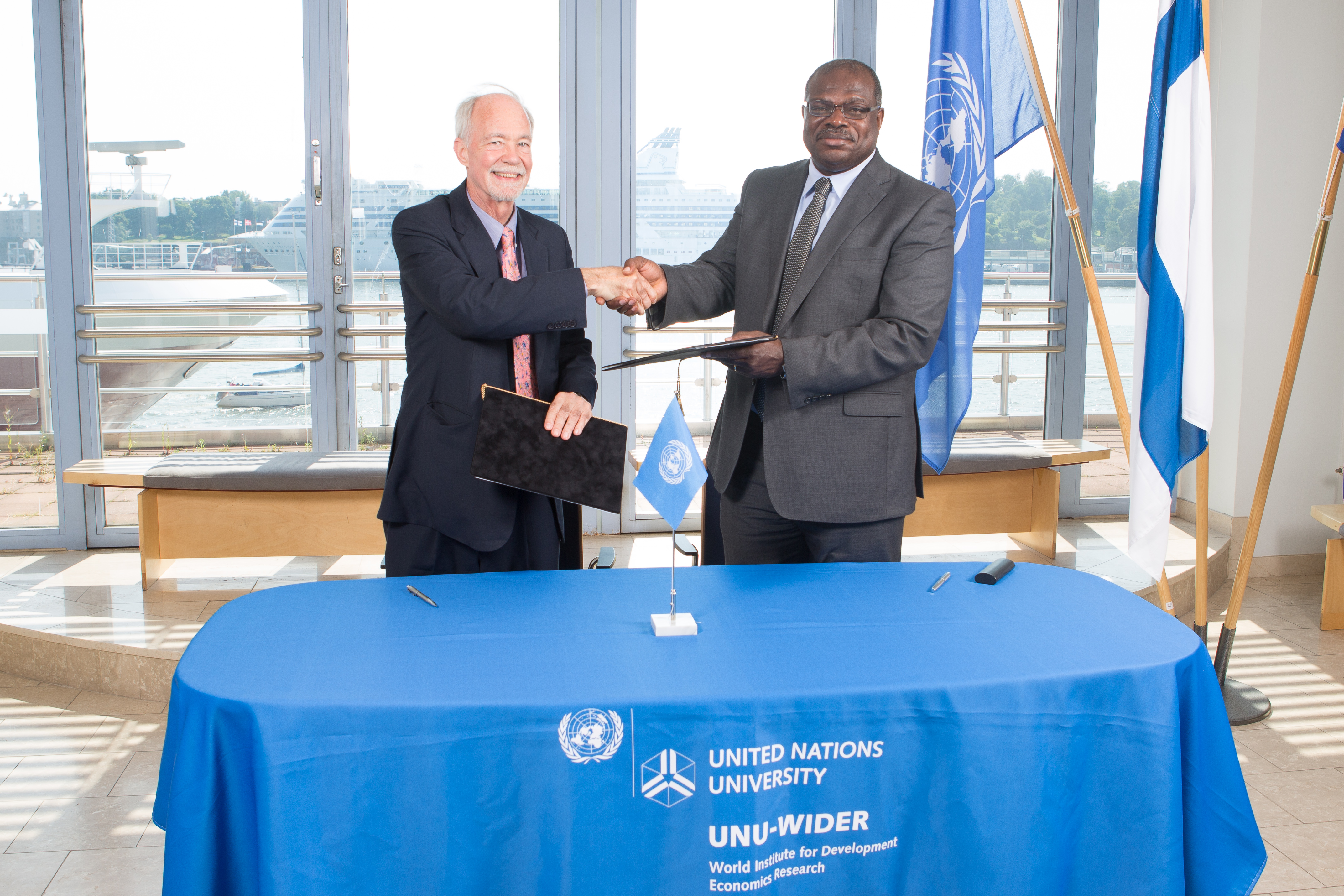 From left to right: David M. Malone, Rector, United Nations University Ernest Aryeetey, Vice Chancellor, University of Ghana